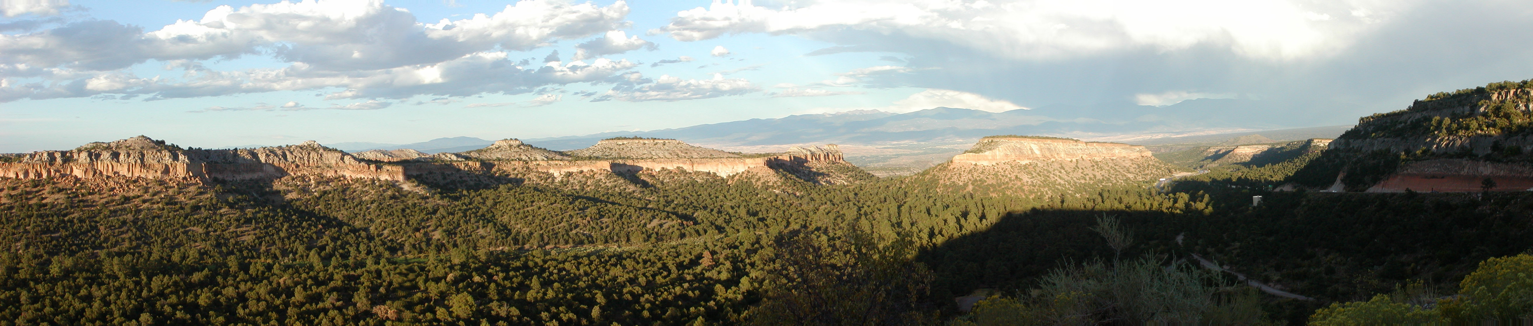 Panorama taken from Los Alamos Hill Road overlook. Photo taken on return from a solo canoe trip in Ontario, Canada cut short by 9/11 events. Taos is visible in the distance to the left, Espanola in the distance near center, Santa Fe is down valley to the right. Ottowi ruins and cliff dwellings are in the middle distance at left and center (cliff dwellings are visible as dark shadows at the base of the cliffs at the left). The main site can be seen in an expanded view as an area of light green on a gentle slope dropping to the left. The dark green areas in the picture are Pinon pines, most of which died from beetle damage in the droughts of subsequent years. The photo was constructed from 4 individual hand-held shots using an Olympus C-700 UZ camera, and stitched using the native Olympus software package. Each of the 4 frames were 1600x1200, shot at f/4, 1/800 s, ISO 100. The size of the uploaded panorama file was 5260x1119.